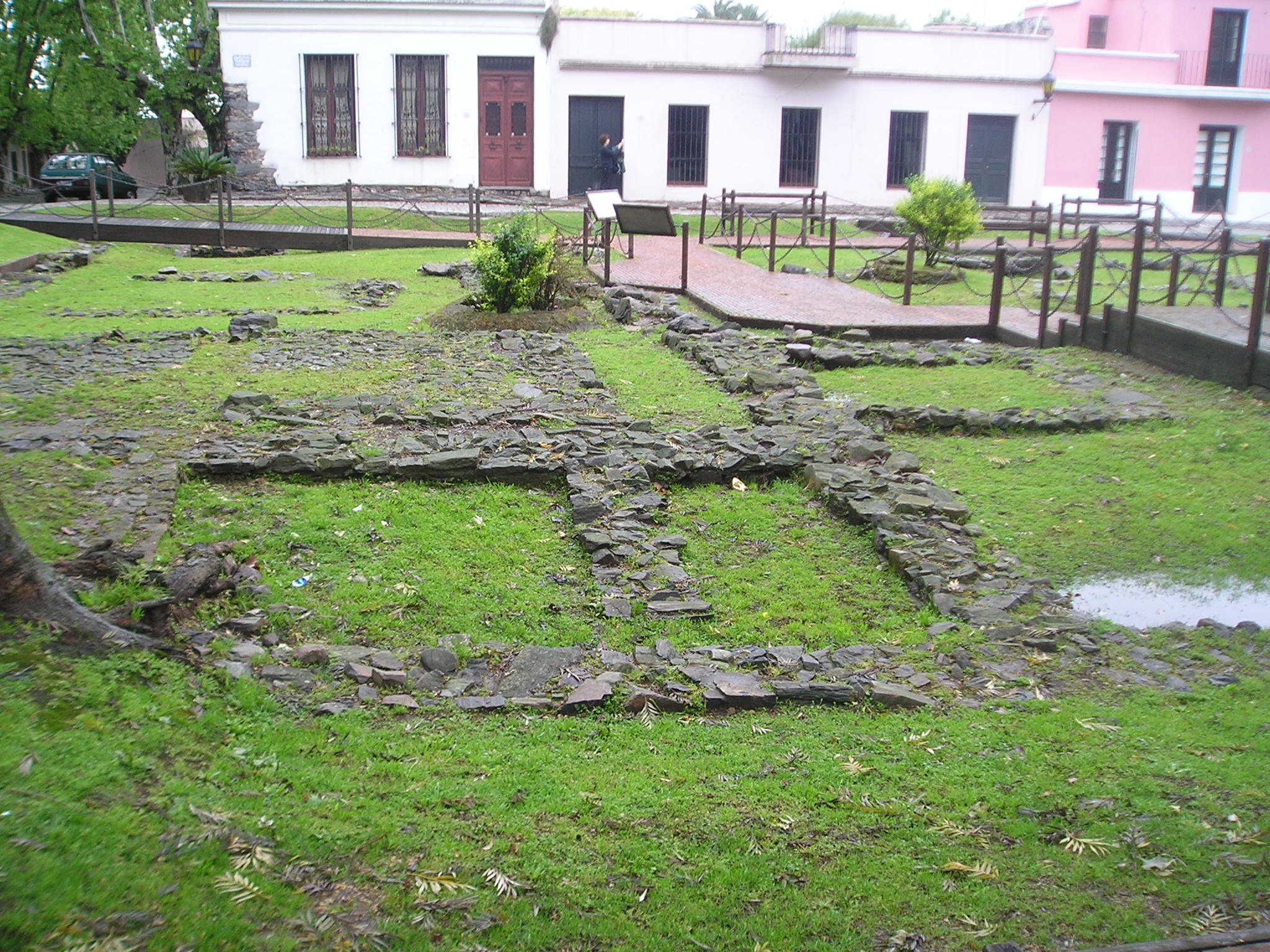 Ruins of the Governor's House in Colonia del Sacramento (Uruguay), destroyed after Spanish conquest of the town in 1777.